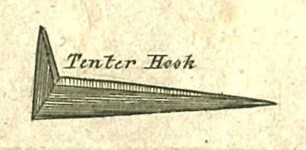 Extracted from a page from the trade catalogue of H. Barns & Sons, general iron founders, Bartholomew Street Birmingham, England.